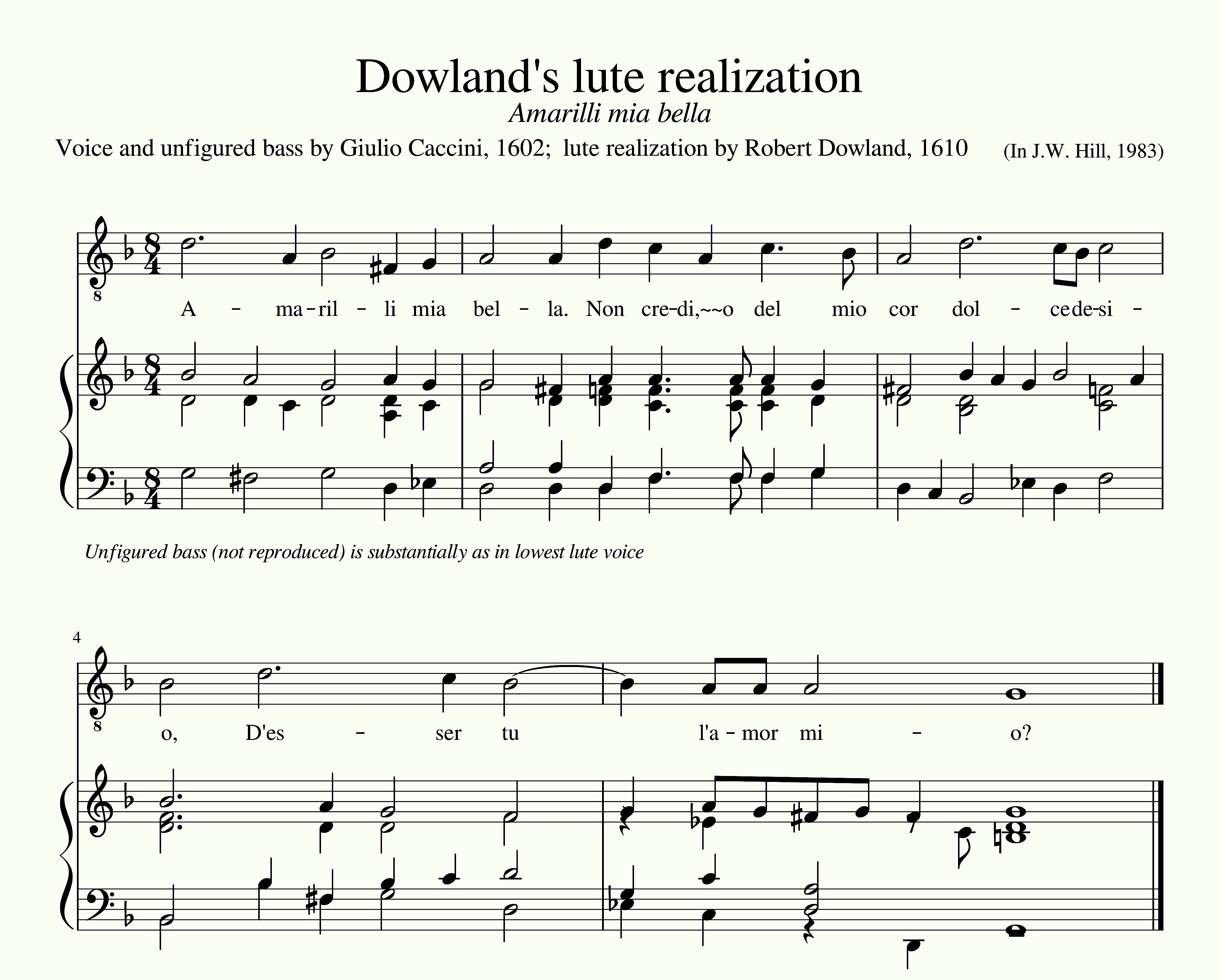 Robert Dowland's lute accompaniment realization (1610) of Giulio Caccini's song "Amarilli mia bella" for voice and unfigured bass (1600)